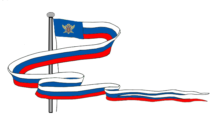 Pennant of the Federal Tax Police Service of the Russian Federation (FSNP)